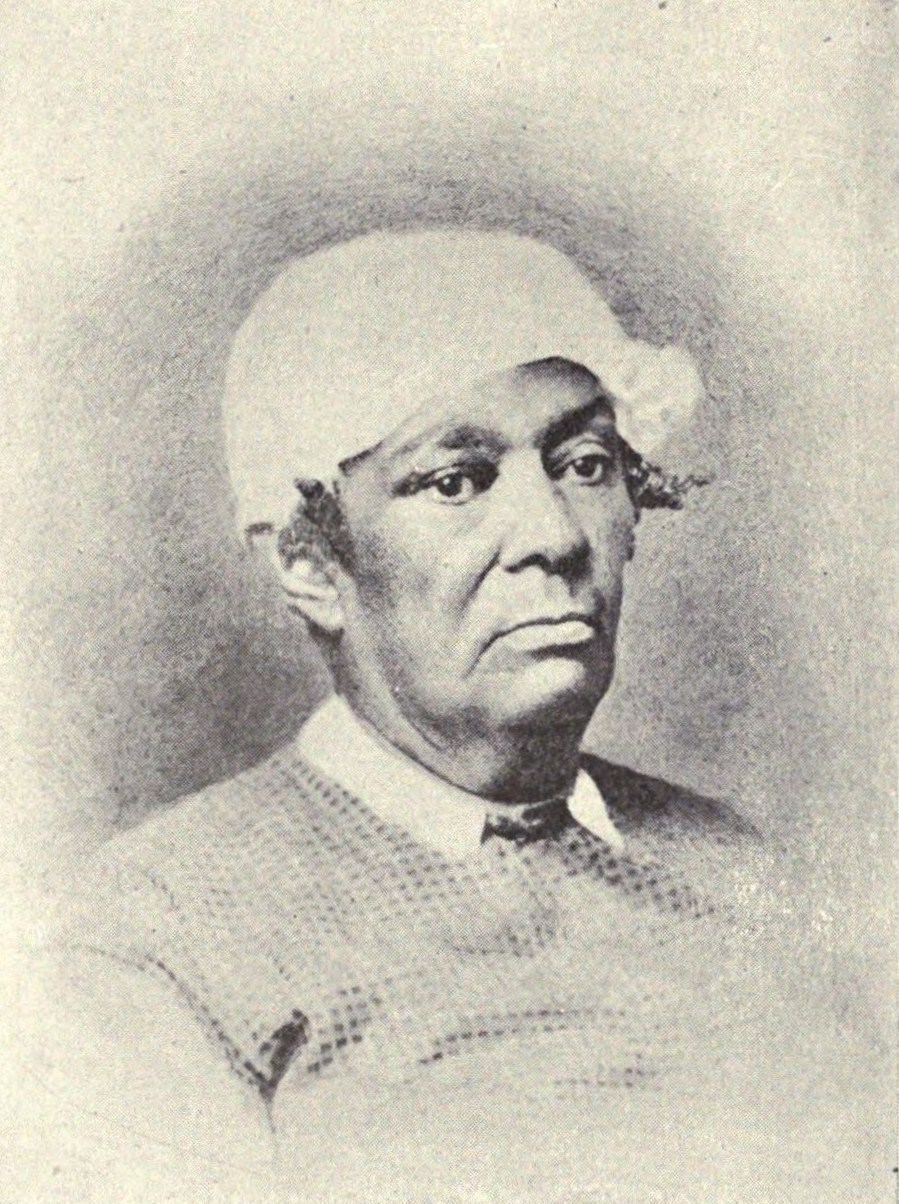 Betsey Stockton was born in slavery c. 1798 in New Jersey. She traveled to Lahaina, Hawaii with Rev. C. S. Stewart in 1823 and worked as a teacher. She returned in 1825, and taught in Philadephia, Canada, and then Princeton, where she died in October 1865.